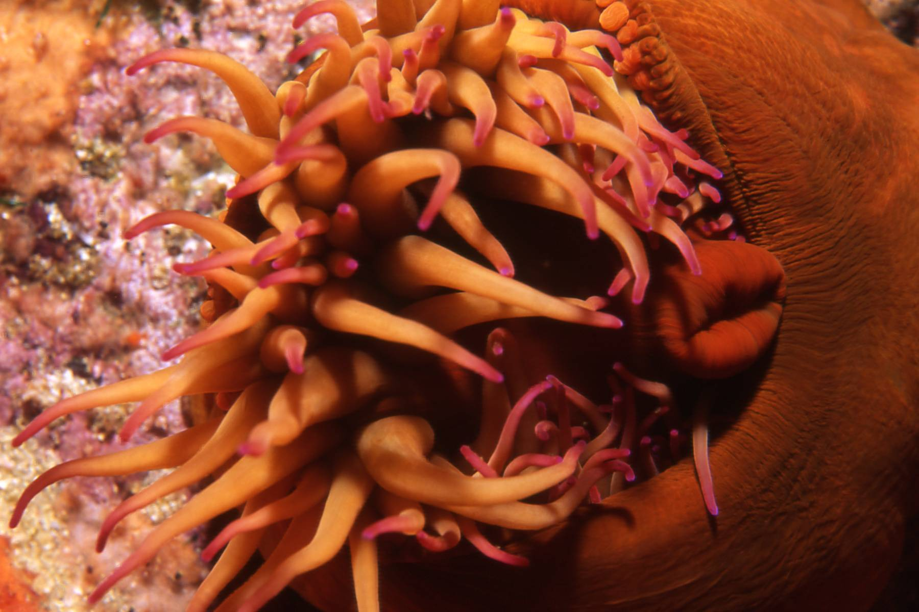 A closeup photograph showing the normal uninflated state of the spherules of Pseudactinia. Photograph taken in about 20m of water at Partridge Point in False Bay South Africa using a Nikonos V camera.